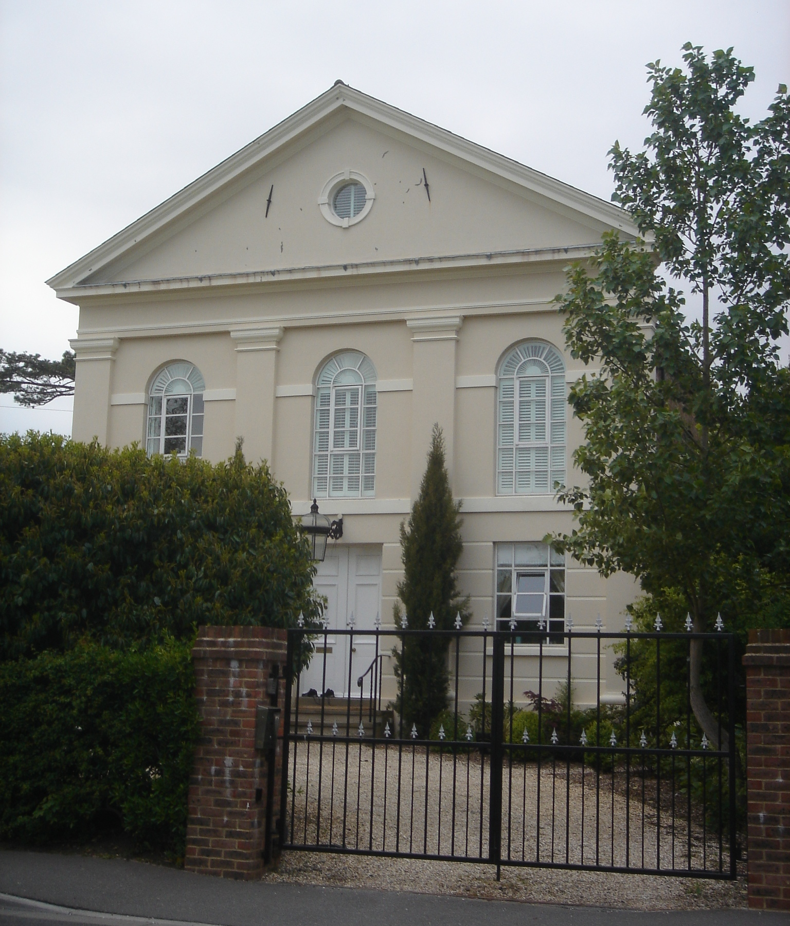 Former Providence Strict Baptist Chapel, Park Road, Burgess Hill, District of Mid Sussex, West Sussex, England. Built in 1875 by Simeon Norman, and sold for redevelopment in 1999. It is now in residential use. listed at Grade II by English Heritage (IoE Code 302102)